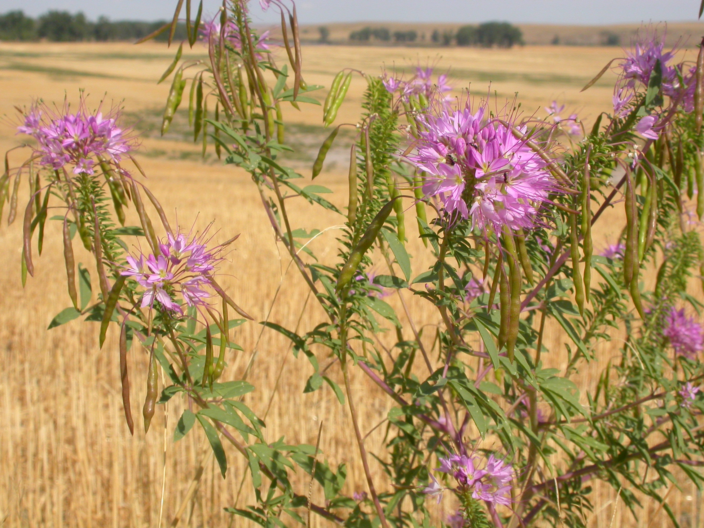 The stipitate fruits distinguish Capparaceae from most Brassicaceae.